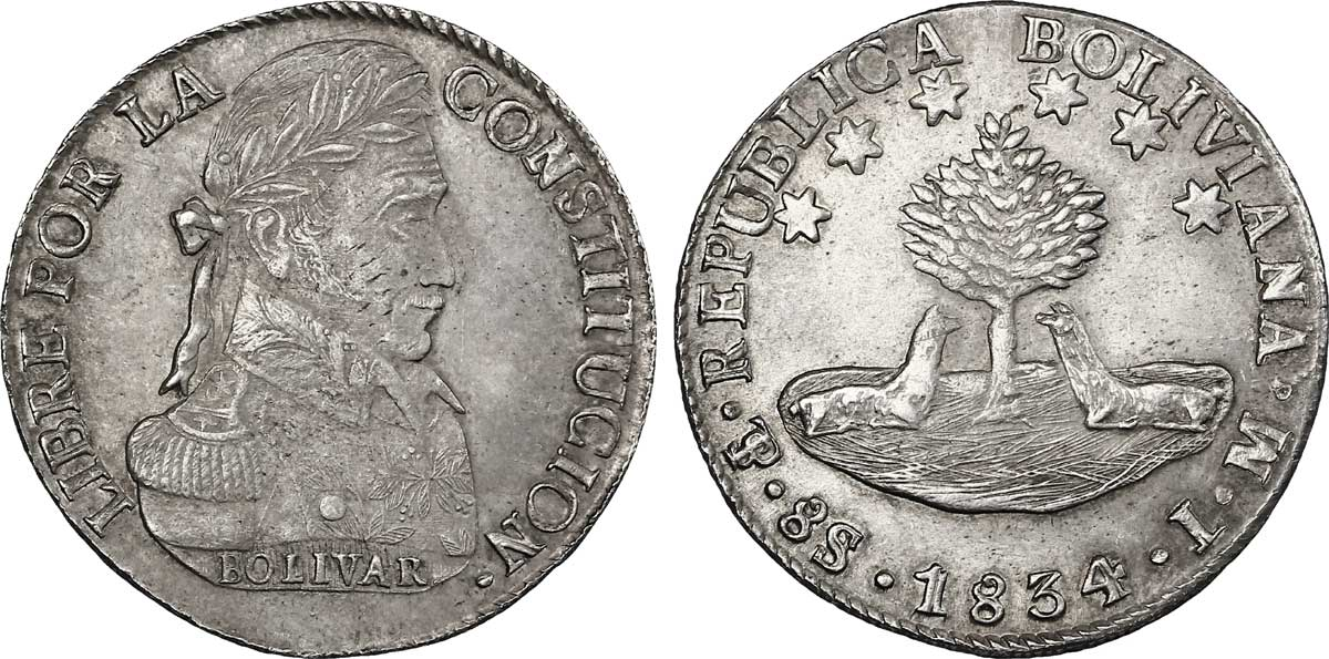 Bolivian 8 Sol coin with the image of Simon Bolivar, 1834, Potosi. Obverse: Bust on the right in military clothing, inscribed "BOLIVAR" on the edge of the garment. Reverse: Two llamas lying left in front of a tree, surmounted by six stars.